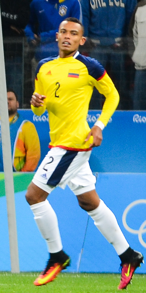 São Paulo - Colômbia vence a Nigéria por 2x0 na Arena Corinthians (Rovena Rosa/Agência Brasil)